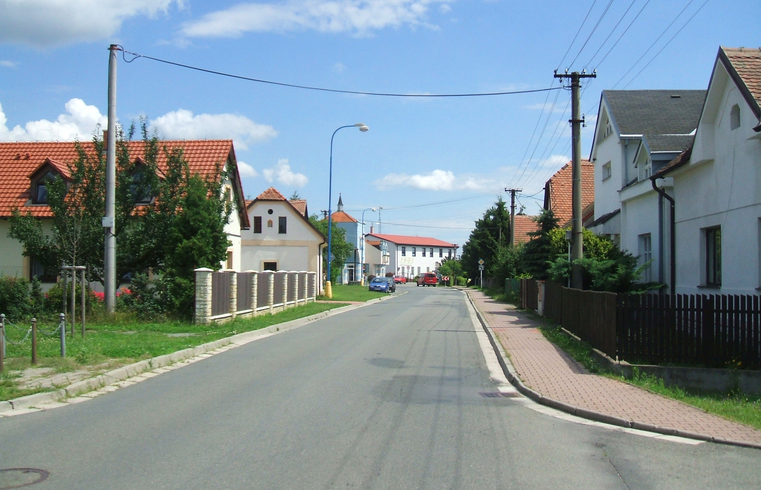 Staré Hradiště, Pardubice District, Czech Republic. Česky: Staré Hradiště, okrese Pardubice